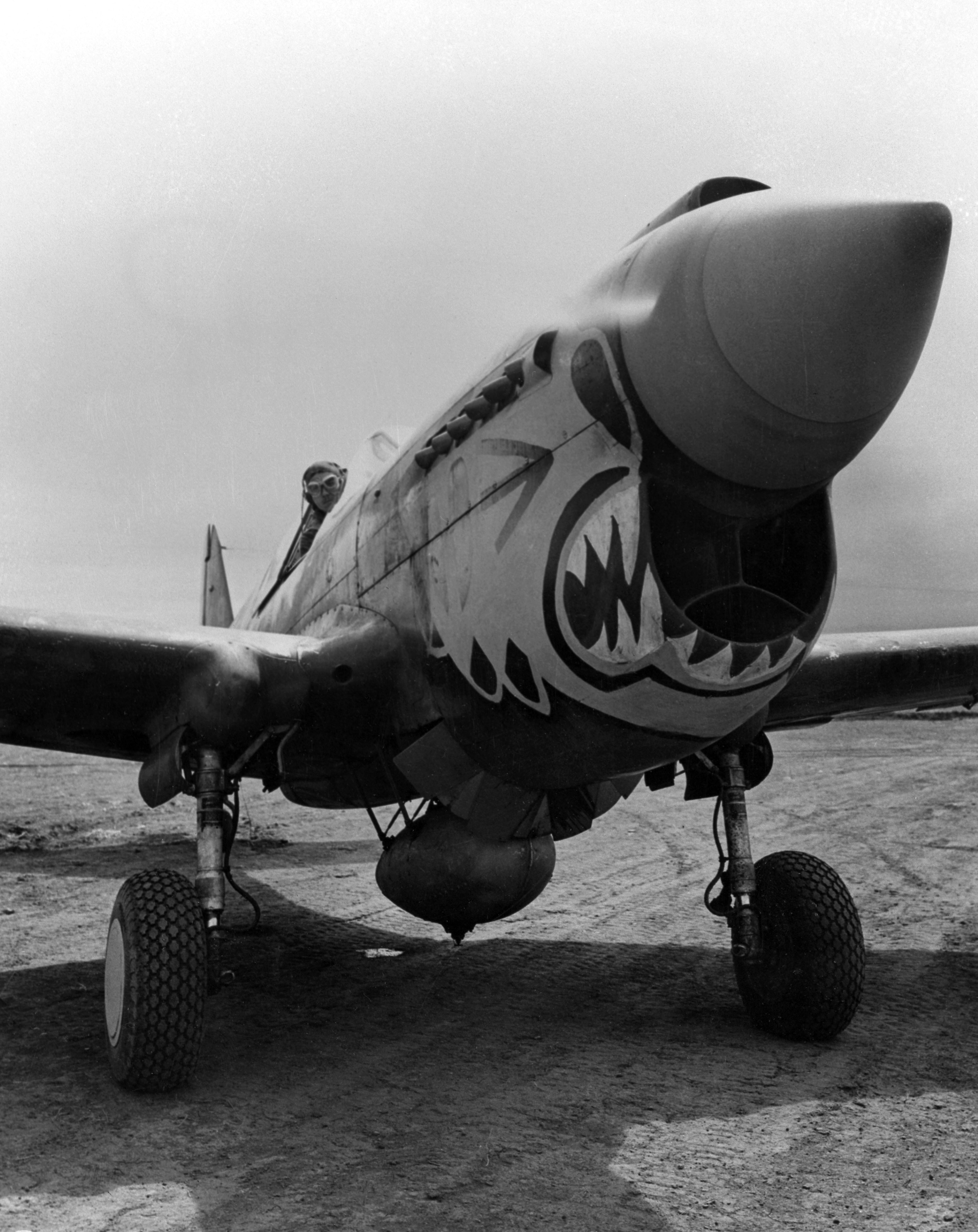 A U.S. Army Air Force Curtiss P-40 Warhawk of the 11th Fighter Squadron, 343rd Fighter Group in Alaska (USA), ca. 1943. The 11th FS moved to Elmendorf Field, Alaska, on 29 December 1941 (with detachments at Fort Randall 25 May to 1 September 1942, and at Ft. Glenn, 26 May to June 1942); in June 1942 the whole squadron moved to Ft. Glenn; on 20 February 1943 it moved to Adak (with detachments at Amchitka, 27 March to 17 May 1943, and 23 March 1944 to 20 July 1945).